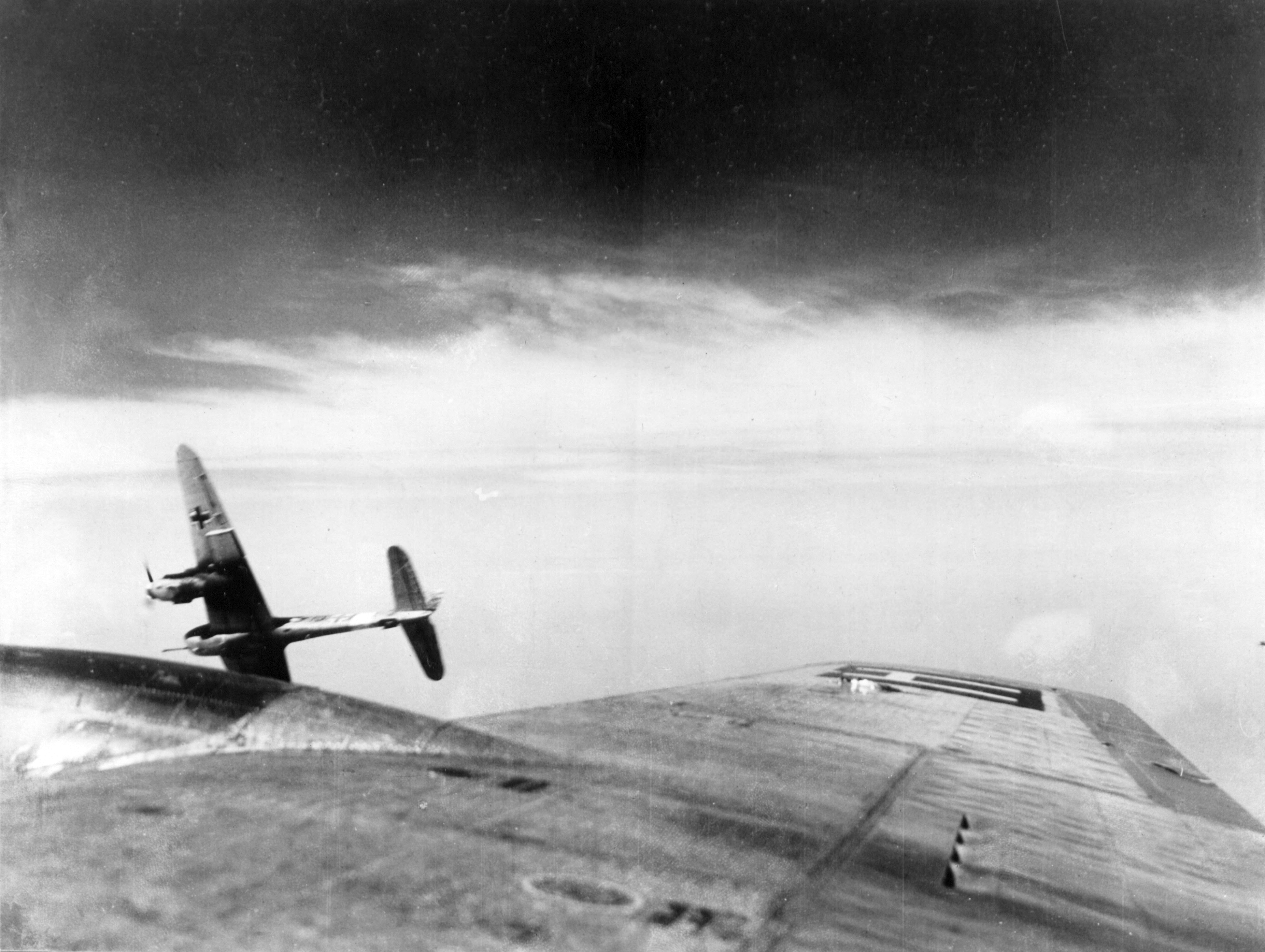 A Messerschmitt Me 410 with a BK 5 heavy autocannon peels off from attacking a 388th Bomb Group B-17 over Europe during the USAAF campaign against Germany, 1943